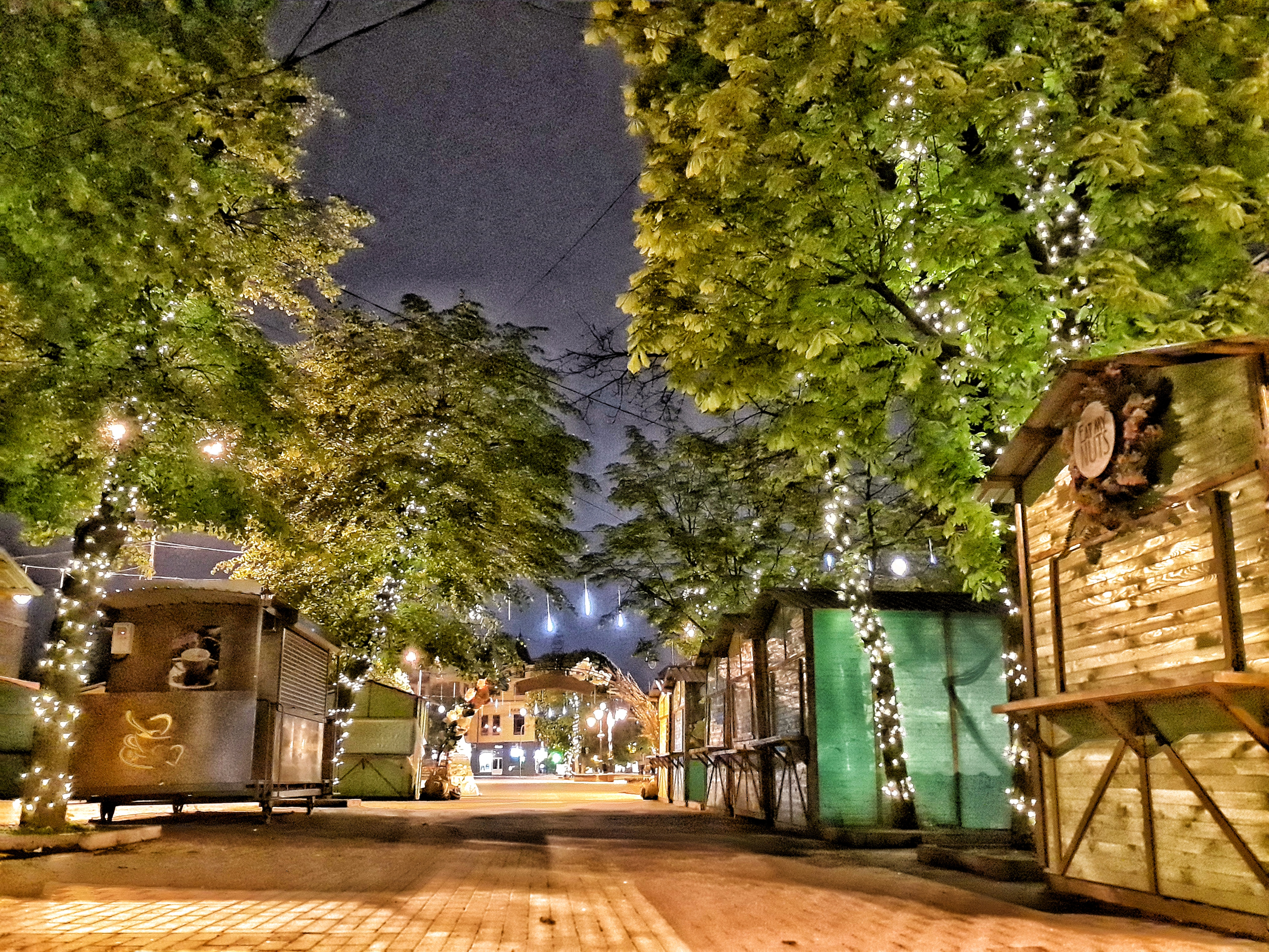 6 травня 2019 року довелося відвідати Хмельницький Великодній ярмарок. Ось так він виглядає у темну пору доби) Автор - Василь Камінський.